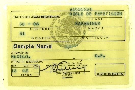 Copy of Mexican firearm registration card